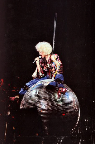 Photo taken during one of the concerts in 1993